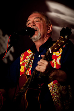 Mike Gaston, 2012